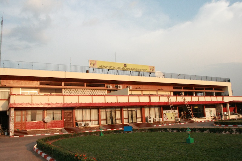 The Local Terminal Building